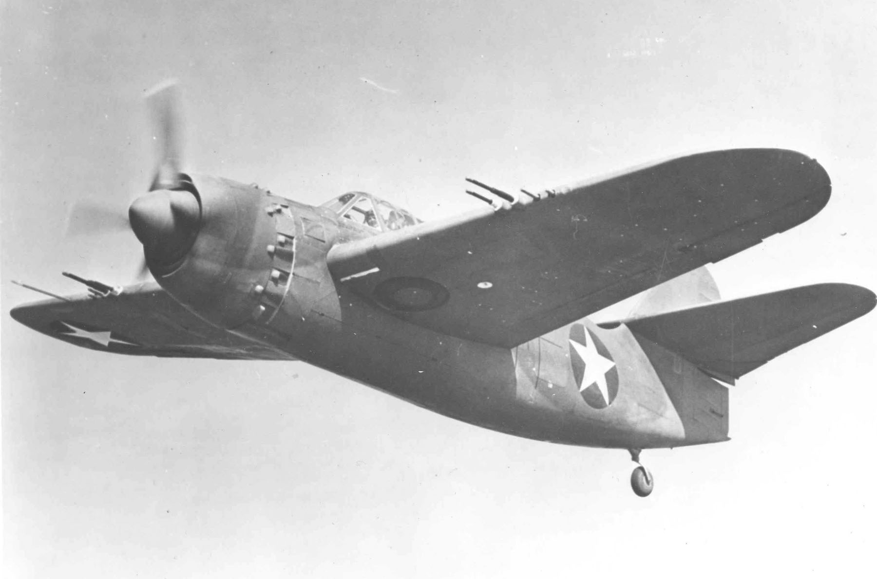 USAF Photo, public domain Original phot found on: [1]